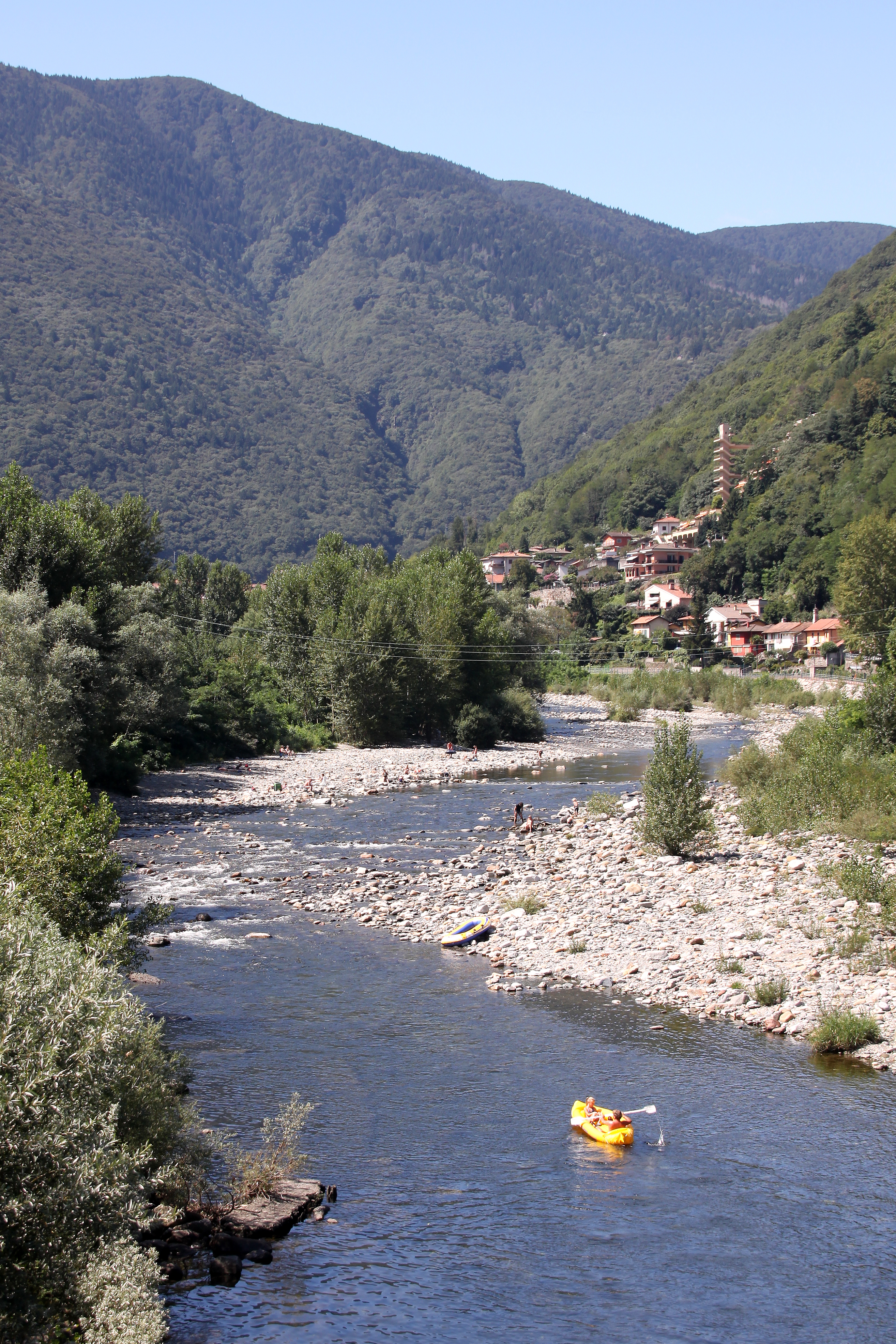 The river/stream 'Cannobino' viewed upstream in the direction of the town of Traffiume from the bridge in the 'Viale Vittorio Veneto' (SS34) in Cannobio (Italy) in summer.